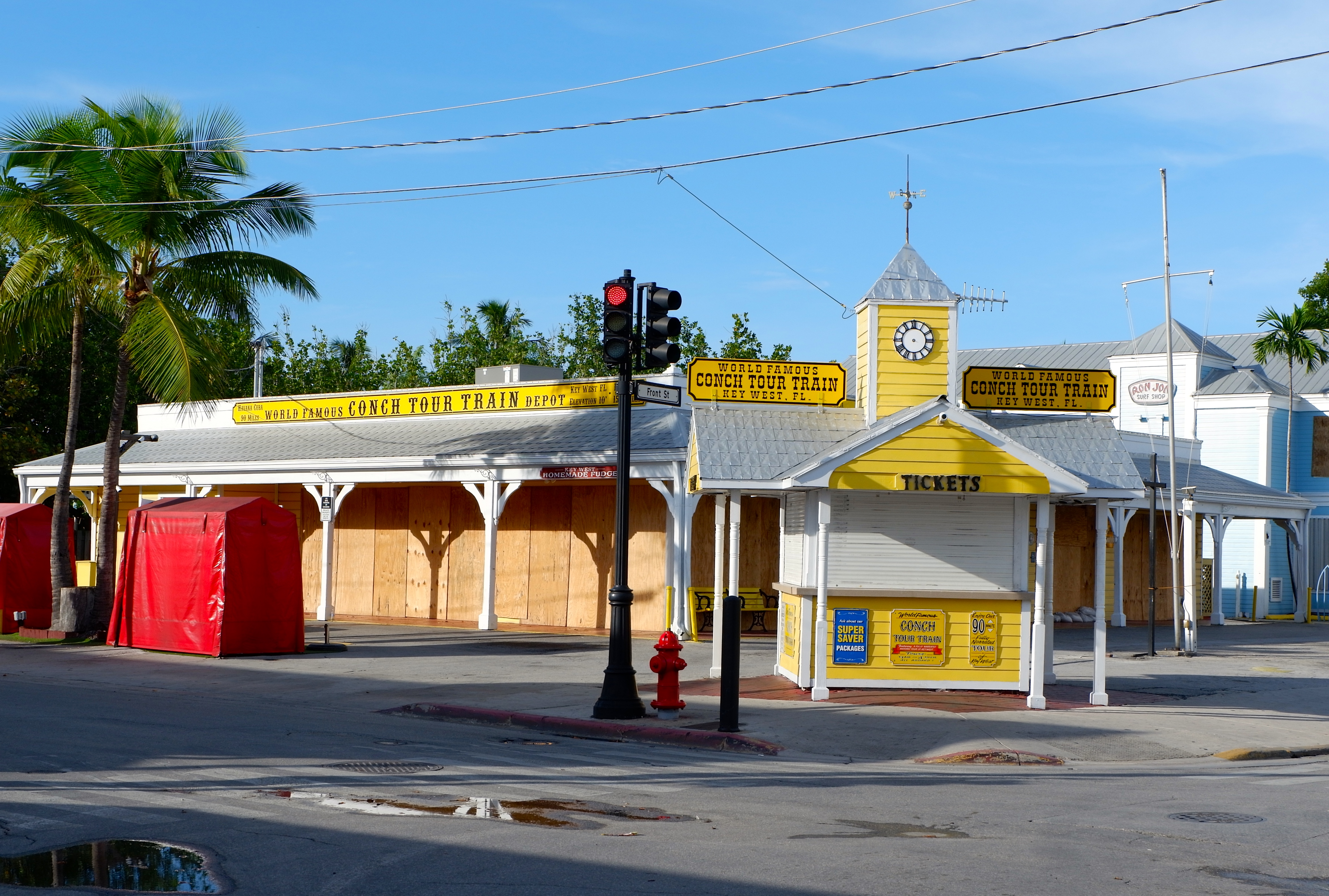 Hurricane Irma 06